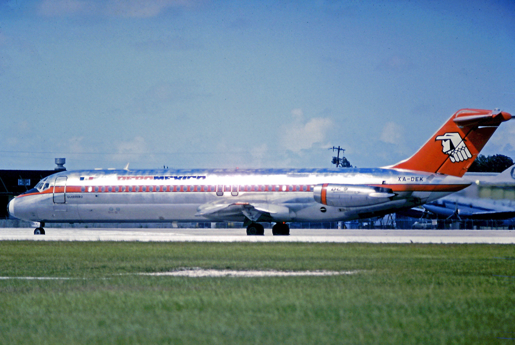 Douglas DC-9-32 (XA-DEK, Guerrero) of Aeromexico at Miami International in 1975